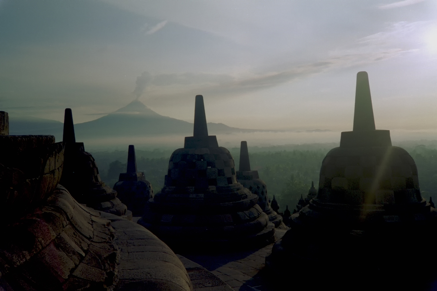 Borobudur